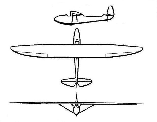 Glider G-9 design Gribovsky.